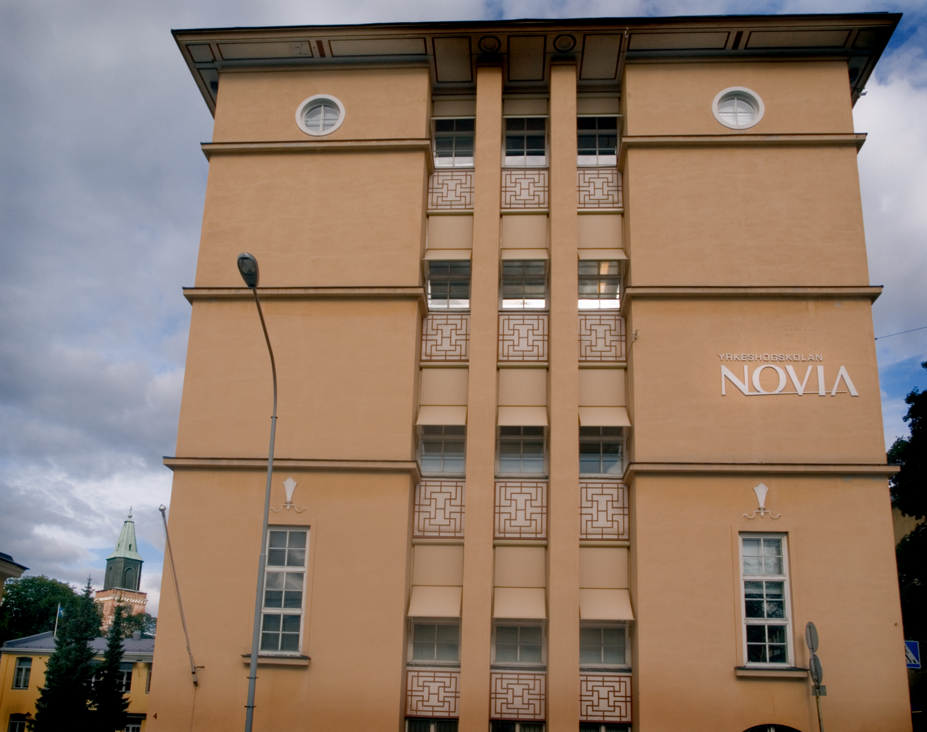 Swedish-language Novia University of Applied Sciences located in the old Rettig tobacco factory, Turku, Finland. Architect Albert Richardtson 1927–1929.